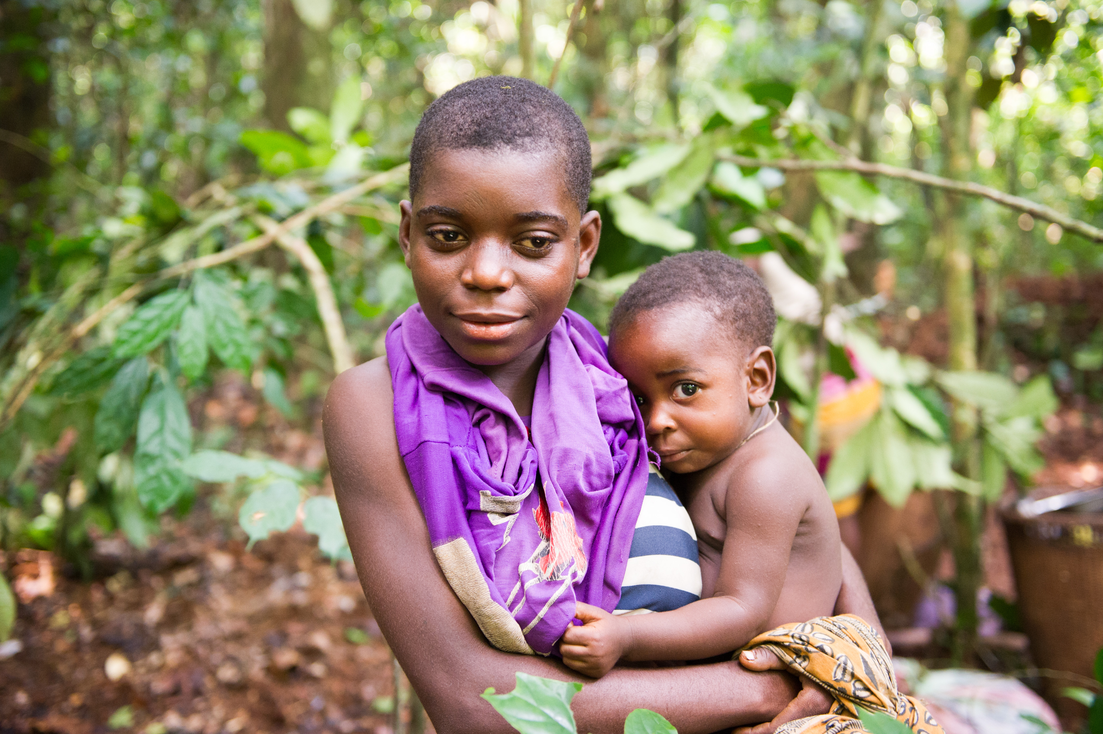 I spent a night in the forest with about 30 BaAka people in southern Central African Republic This is an image of Cultural Fashion or Adornment from Central African Republic